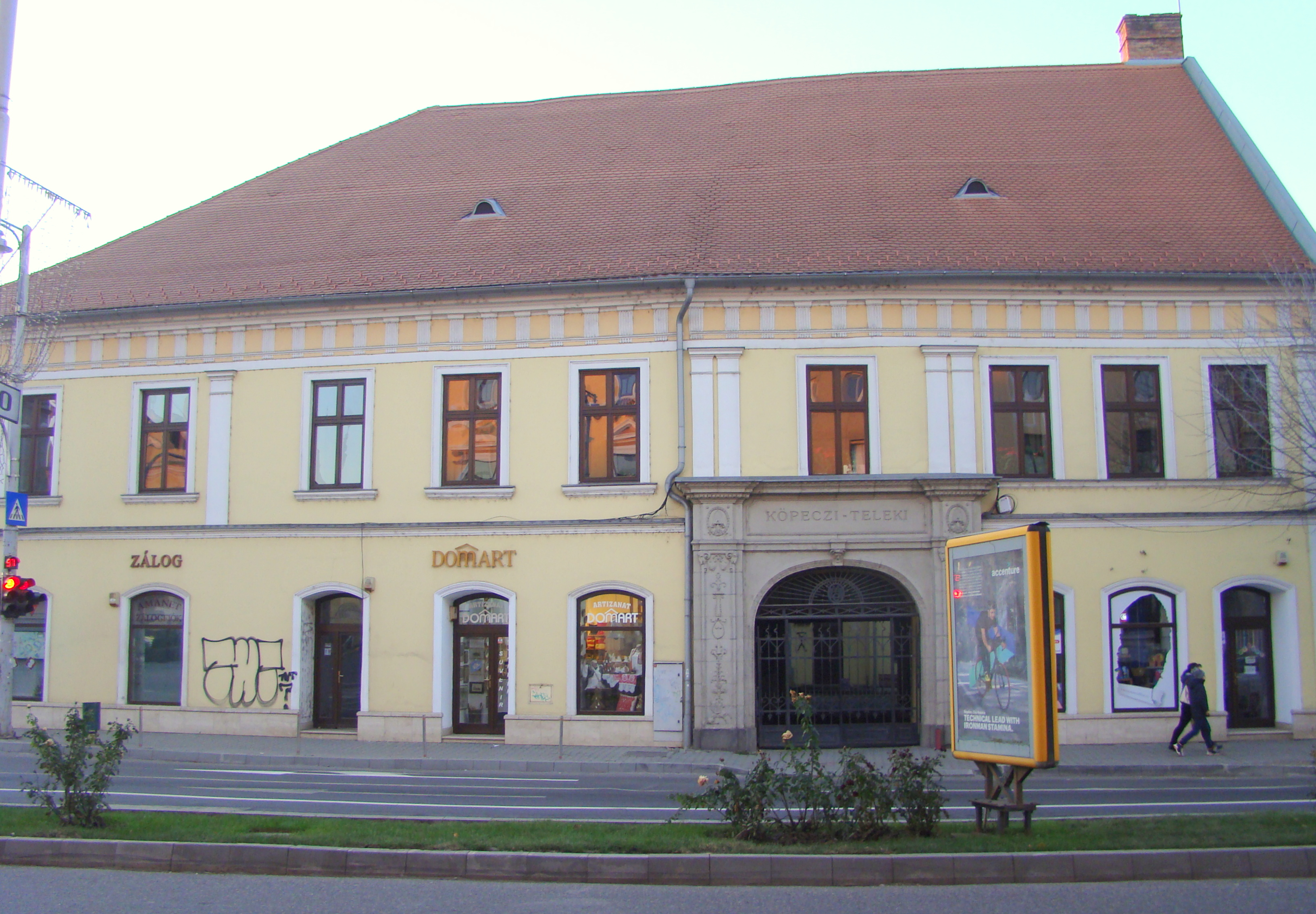 Köpeczi house in Târgu Mureș, Mureș county, Romania